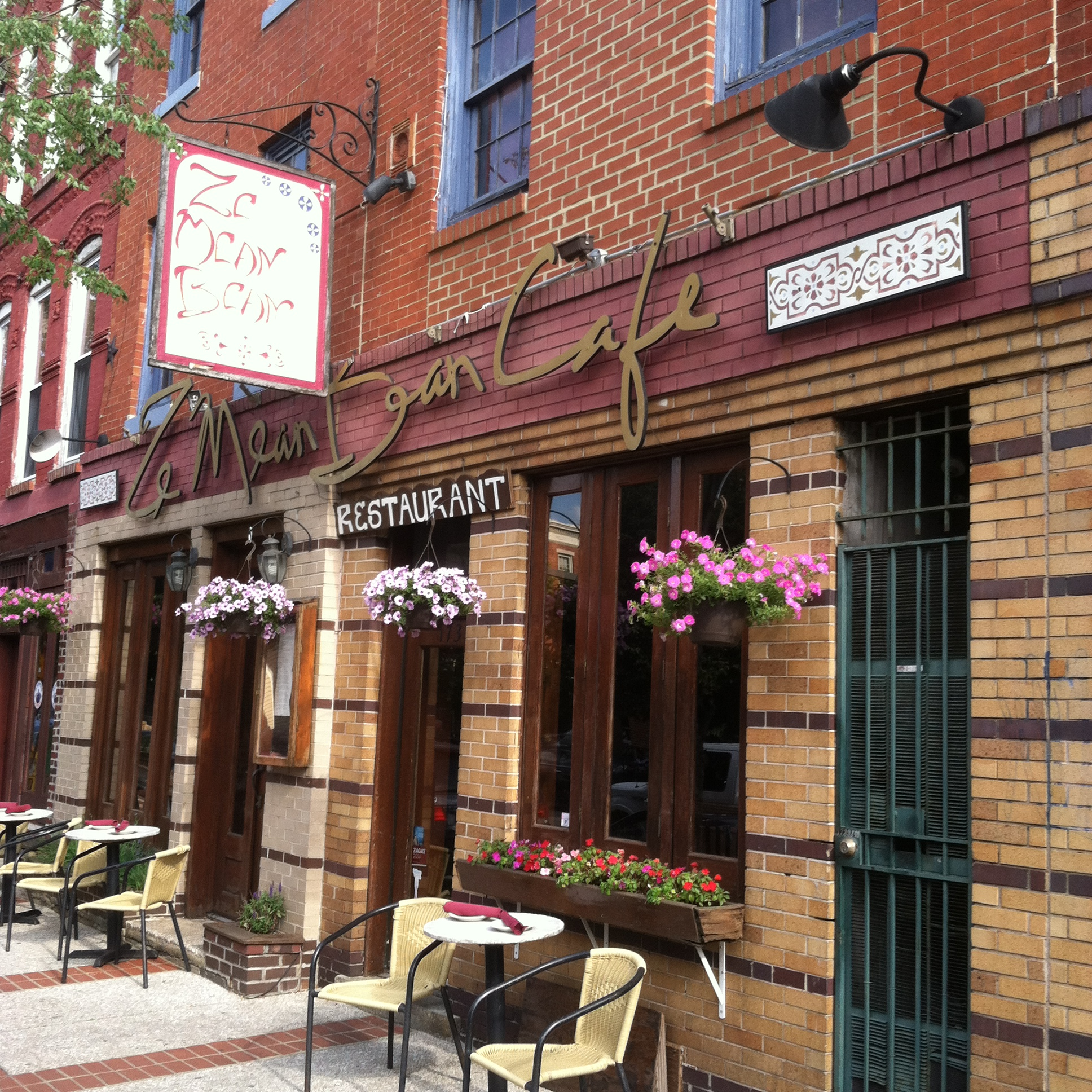 Ze Mean Bean Café, a Slavic and Eastern European restaurant in Baltimore.